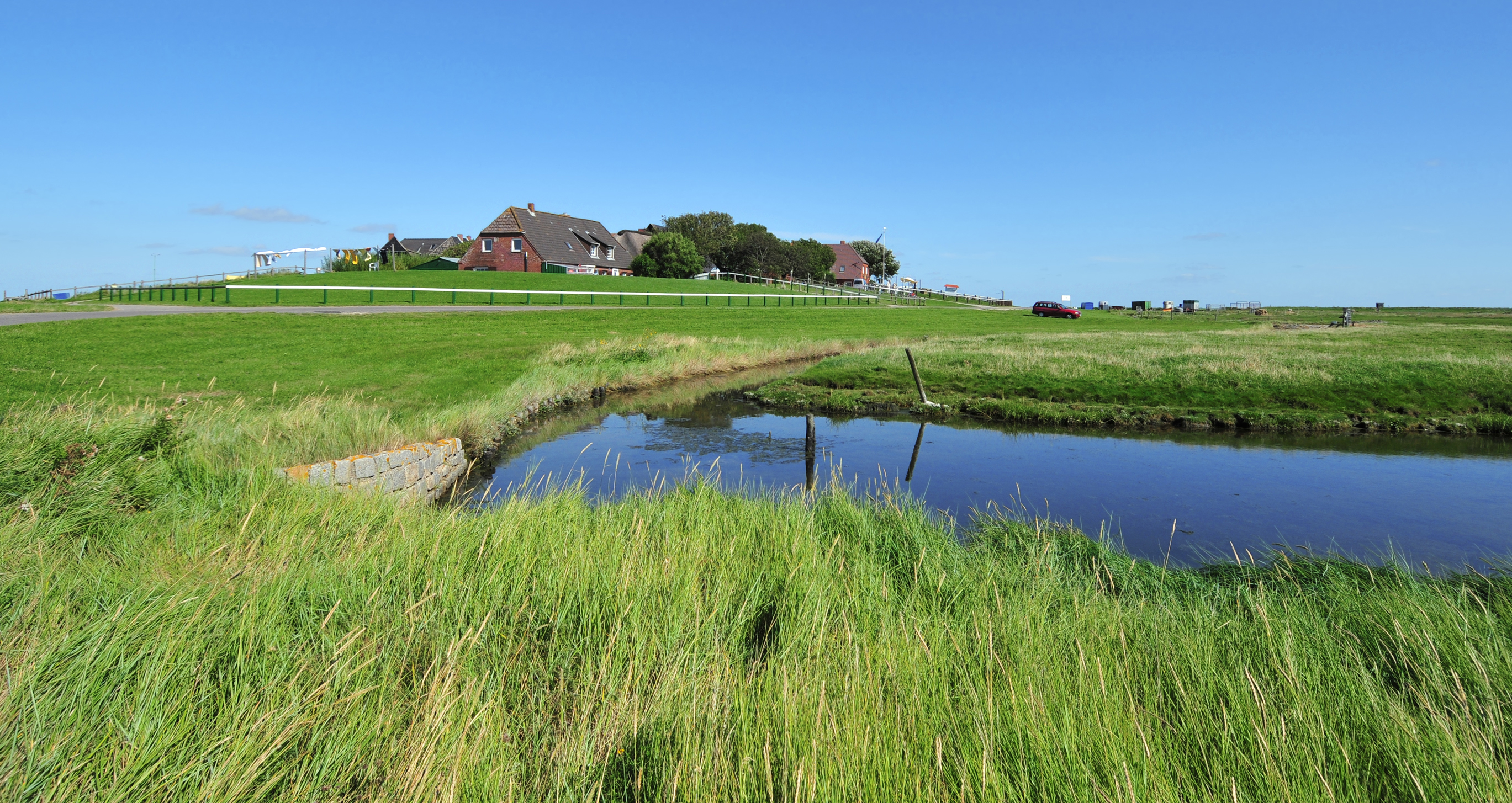 View to the Backenswarft on Hallig Hooge. The Hallig Hooge is the second largest of the ten islets in the Schleswig-Holstein Wadden Sea. Hallig Hooge is surrounded by an approximately 1.20 meters high stone dyke and is thus protected from light storm surges. Nevertheless Hallig Hooge is flooded completely two to five times a year. The Houses are built on high mounds. Therefore they can withstand the storm surges. The Hallig Hooge has twelve mounds. The Backenswarft is the second largest mound with a dozen buildings. The buildings surround the pond with rainwater.